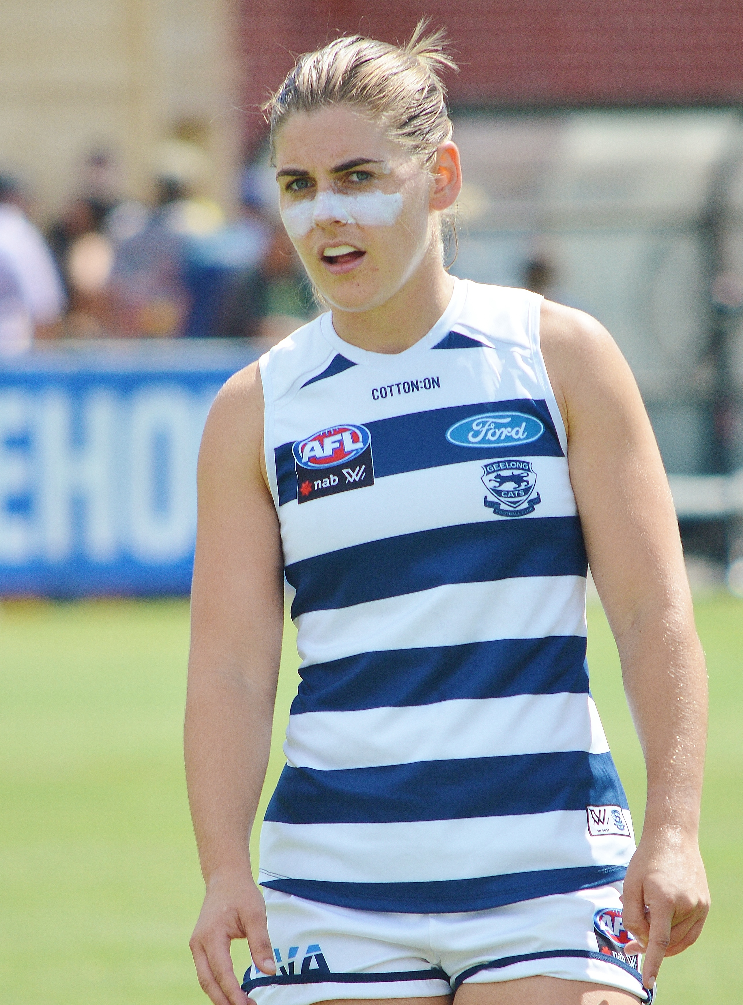 Maddy Keryk with Geelong in the round 4 2020 AFLW match against Richmond at Queen Elizabeth Oval in Bendigo.